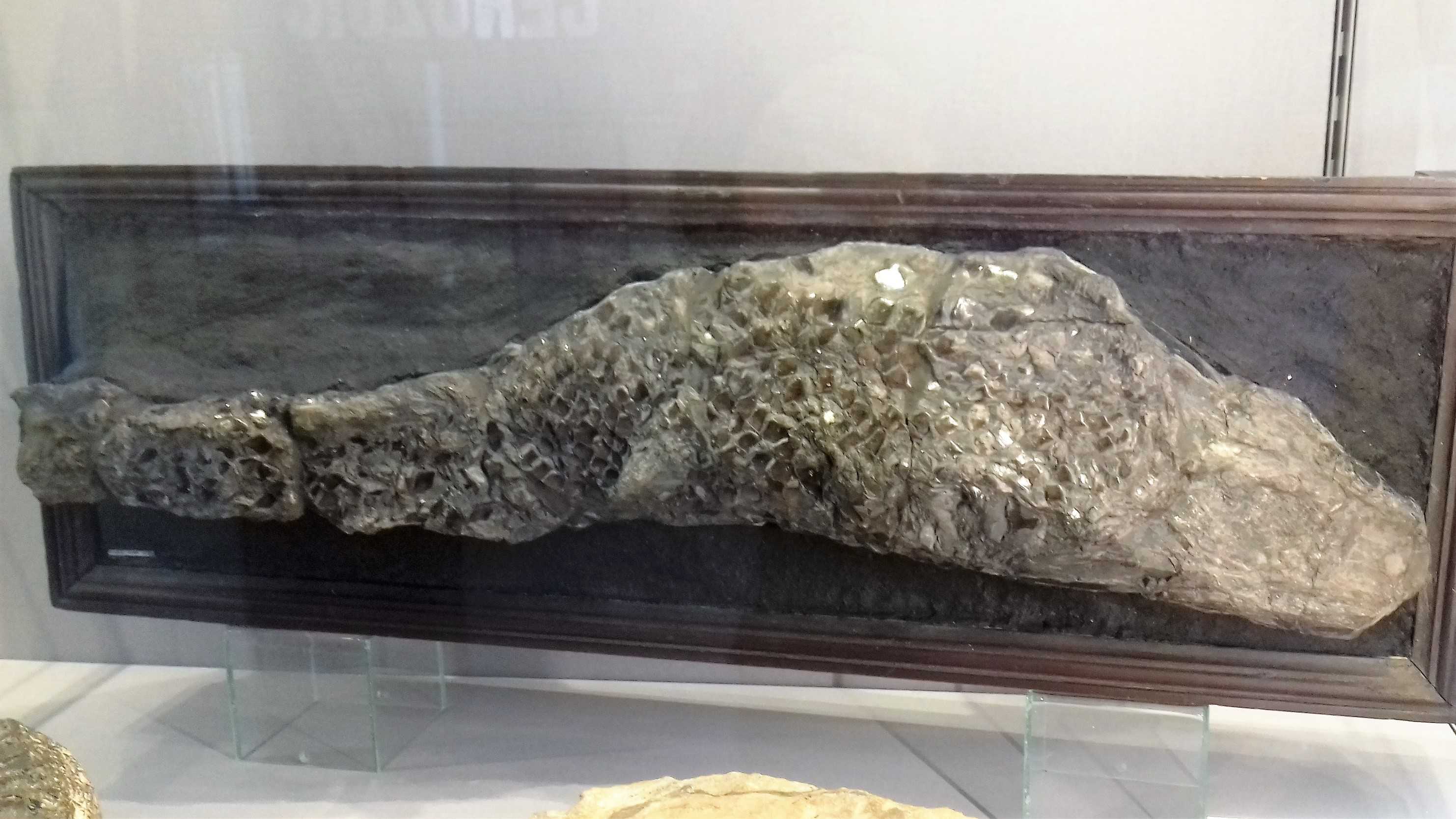 Fossilized Lepidotes semiserratus in the Rotunda Museum, Scarborough, England.